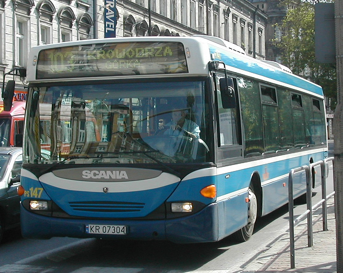 Scania OmniCity CN94UB bus (#PS147, reg. KR 07304) in Kraków, Poland. Built 2000, MPK Kraków operator. Made by Scania Production Słupsk.